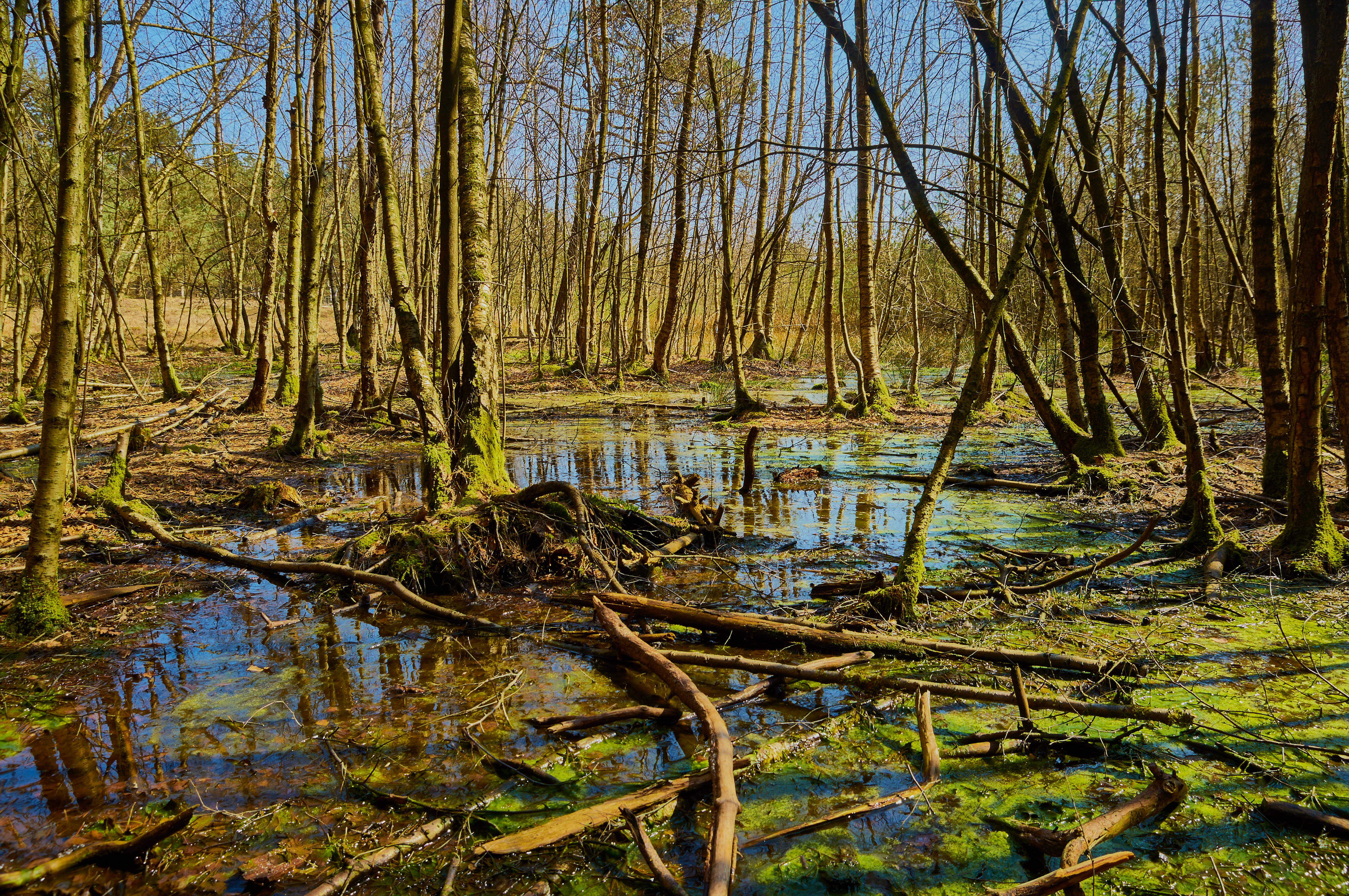 Nature reserve Heidesee, Coesfeld, Germany.